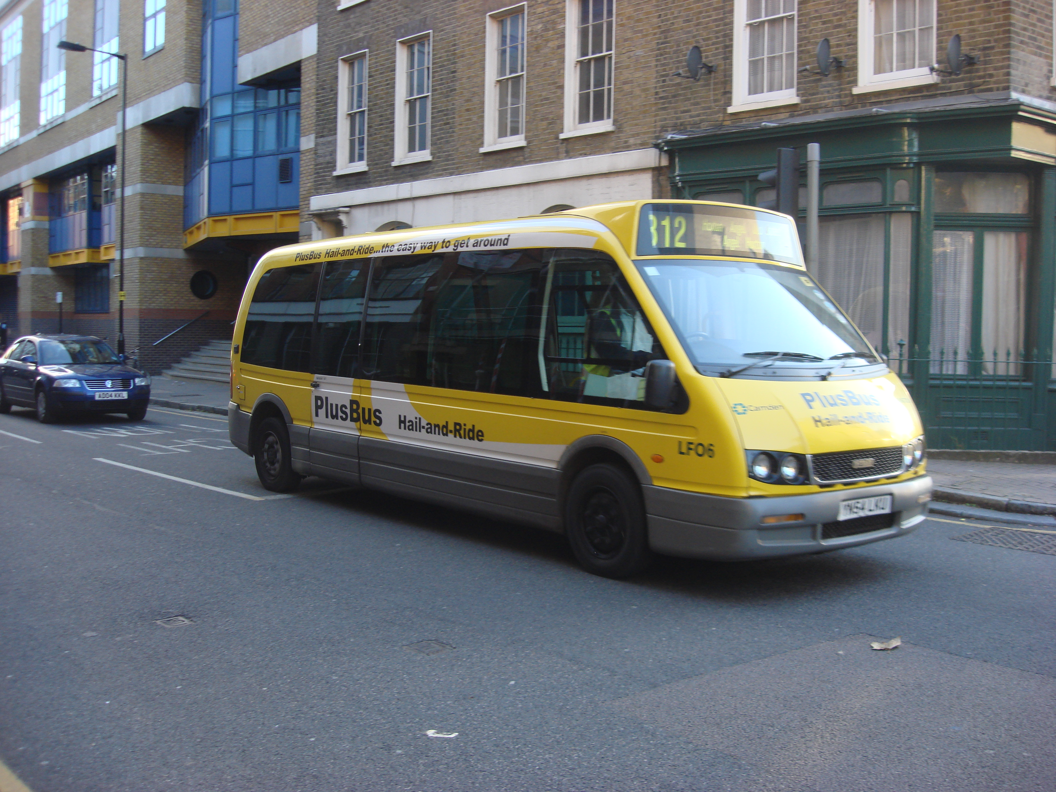 CT Plus (Hackney Community Transport) LFO6 (YN54 LKU), an Optare Alero used on Hail-and-Ride "Plus Bus" route 812, (see [1][2]).